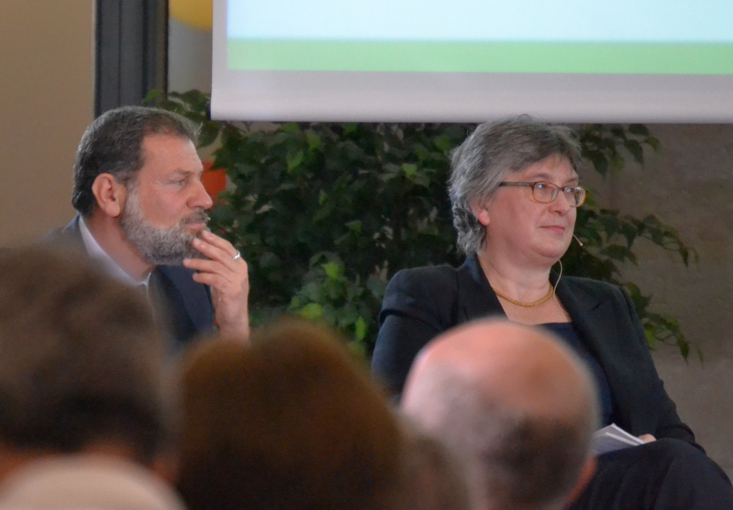 Academies day 2015 at the Berlin-Brandenburg Academy of Science in Berlin; Theme: "Old world today: Perspectives and threats". Image:Podeum discussion 'Bewahrung vor Zerstörung', from right to left: Classical Archäologist Professor Massimo Osanna, Soprintendente of Pompeji, Herculaneum und Stabia, Oriental Archaeologist Margarete van Ess, Scientifi Director of the Orient department and head of the Baghdad branch of the German Archaeological Institute.